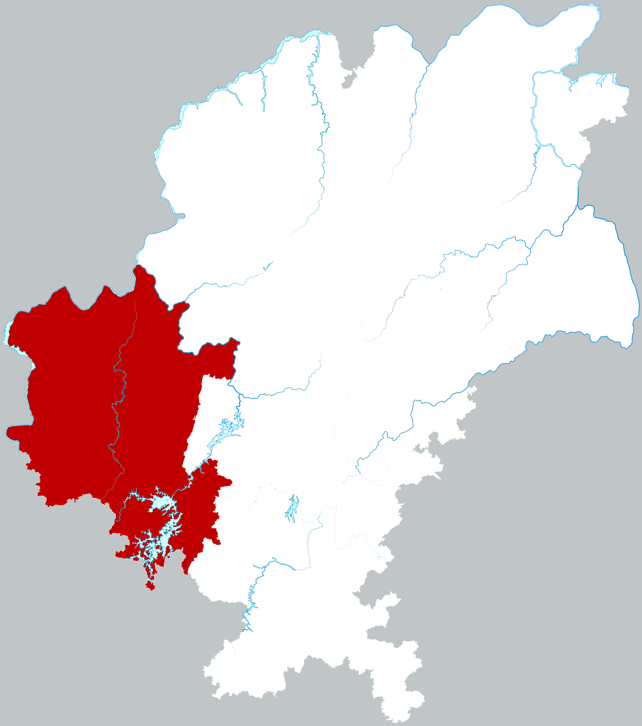 Location of Qingzhen county-level city in Guiyang city, China